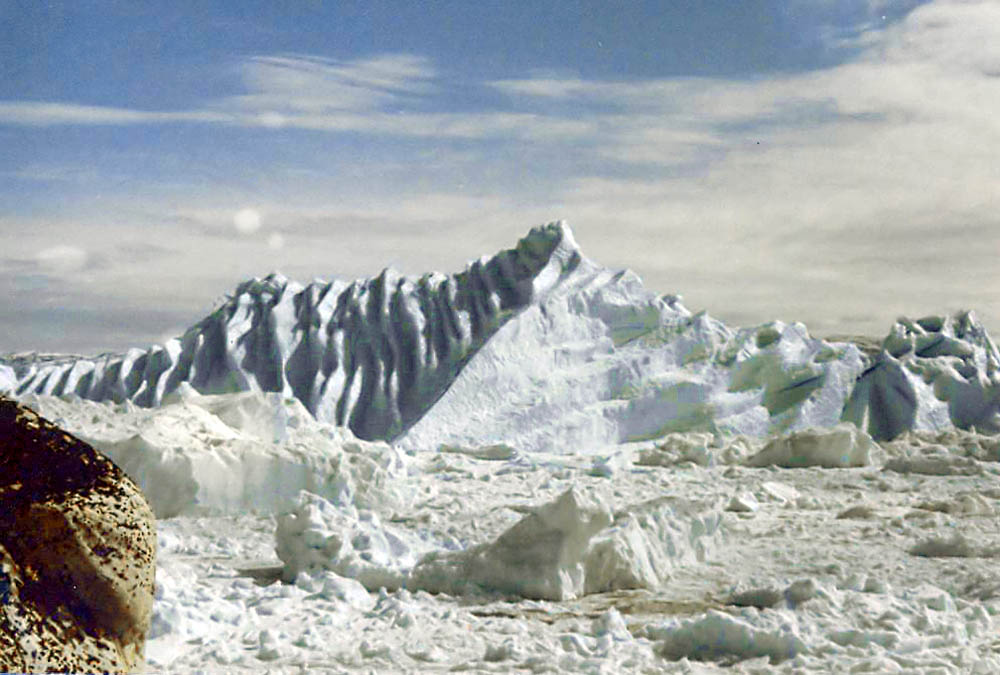 Ilulisat Icefjord, near Ilulisat, West Greenland Photo by Jan Kronsell